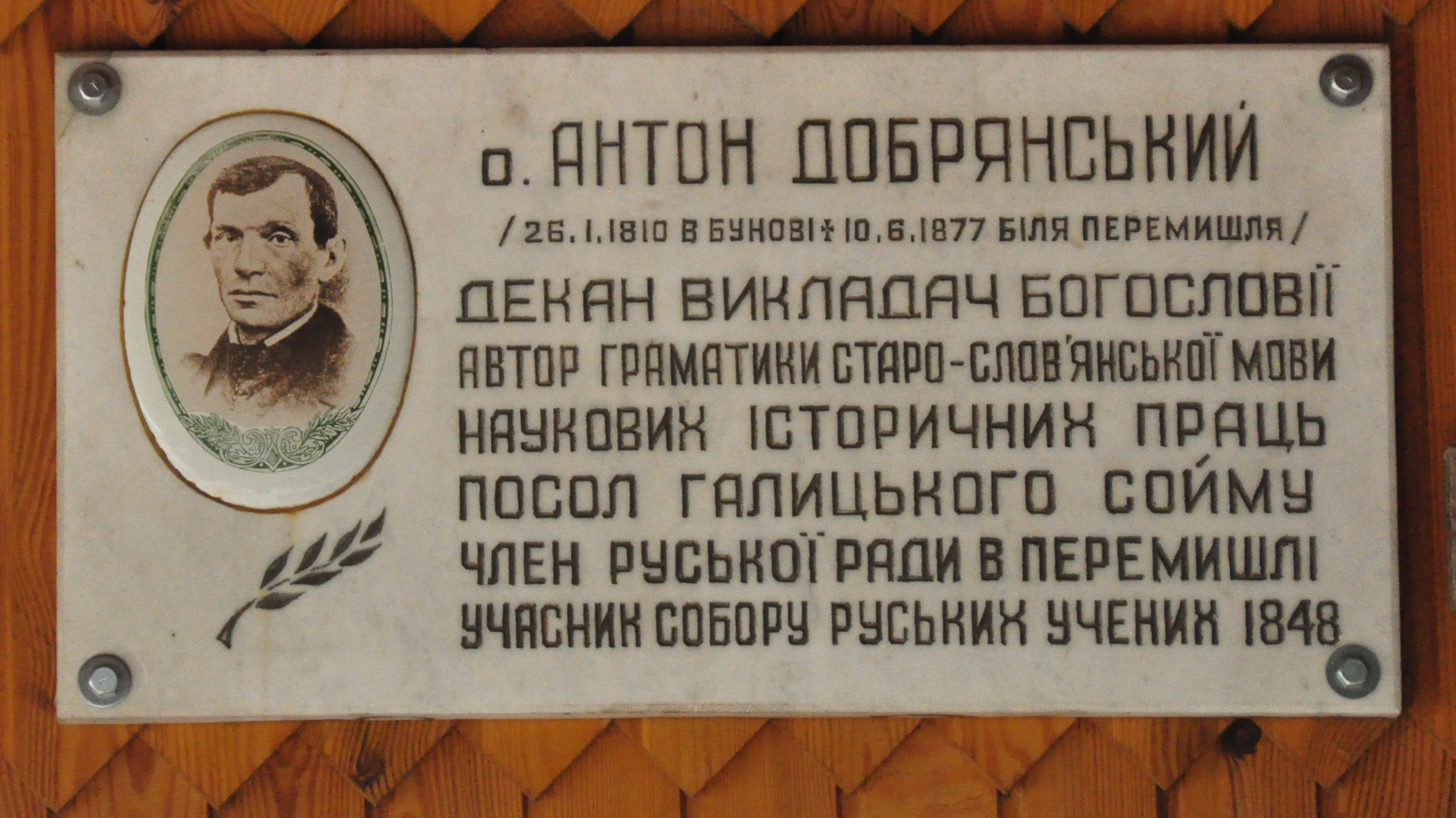 Plaque in memory of Fr. Antoniy Dobrianskyy on the wall of St Paraskevia Church in Buniv, Yavoriv Raion, Lviv Oblast